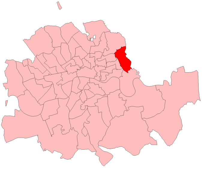 A map of Bow and Bromley constituency within the Metropolitan Board of Works area, as it existed from 1885 to 1918.